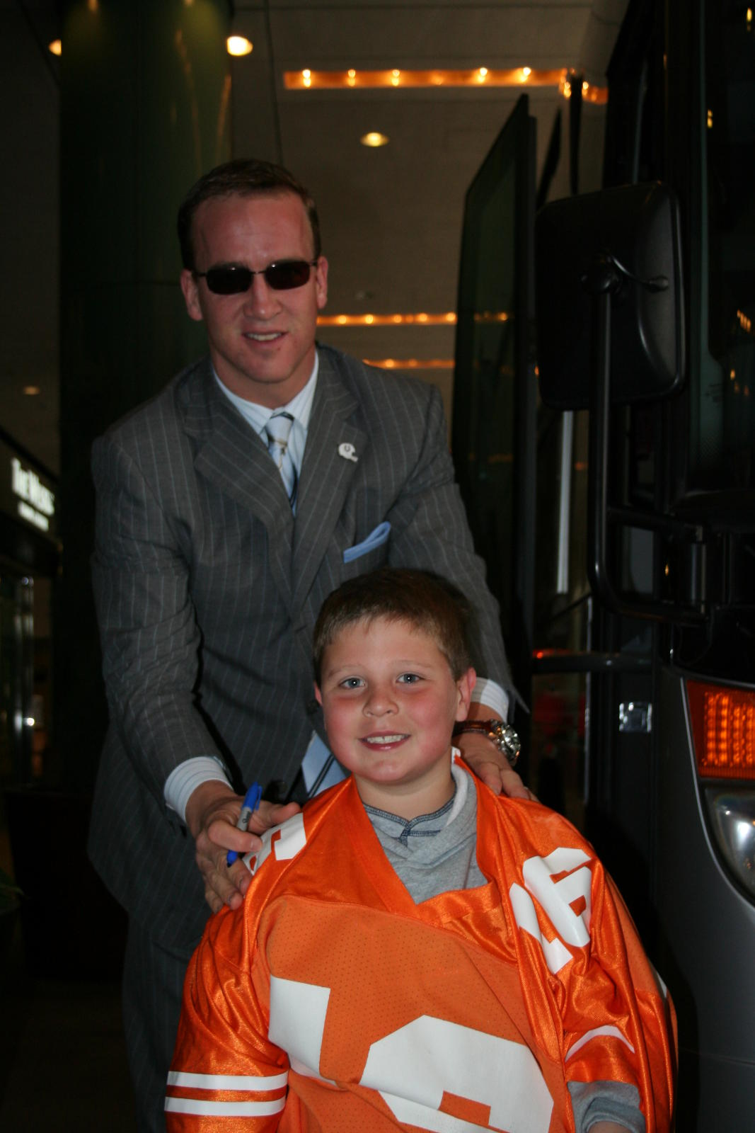 Palmer and Peyton Manning 10/29/2006